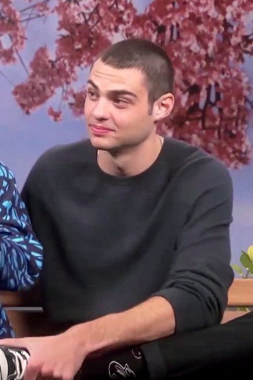 Interview with actors from the movie To All the Boys: P.S. I Still Love You, Lana Condor (Lara Jean) and Noah Centineo (Peter Kavinsky).